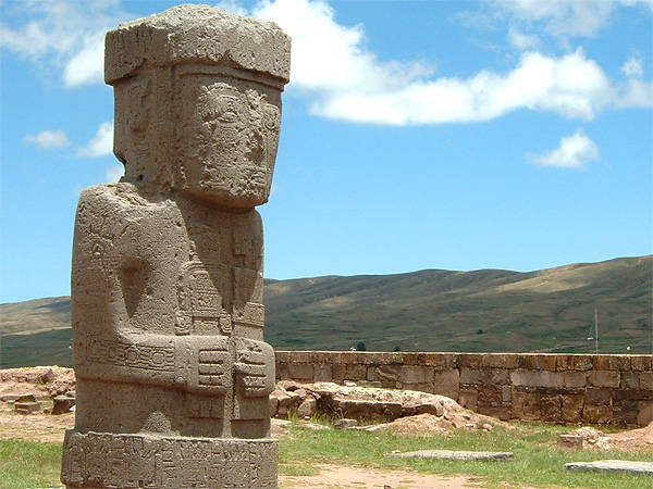 Photo of statue “el Fraile” (the monk) in Tiwanaku.